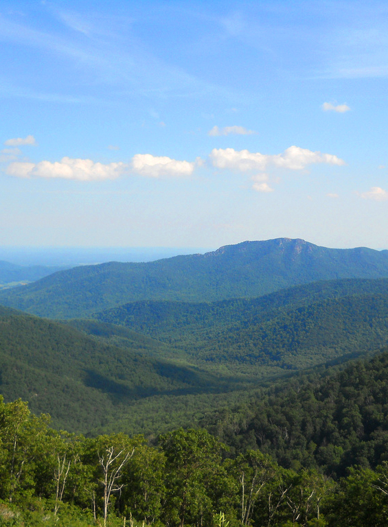 Shenandoah (Cropped)